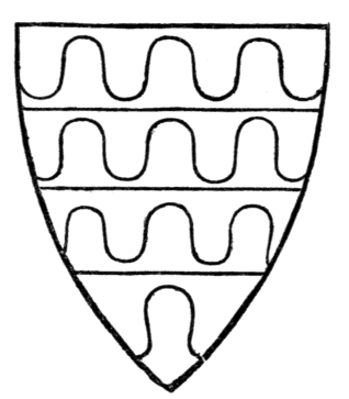 Fig. 37.—Arms of William de Ferrers, Earl of Derby (d. 1247): "Scutum variatum auro & gul." (From MS. Cott. Nero, D. 1.) In the oldest records vair is represented by means of straight horizontal lines alternating with horizontal wavy or nebuly lines.